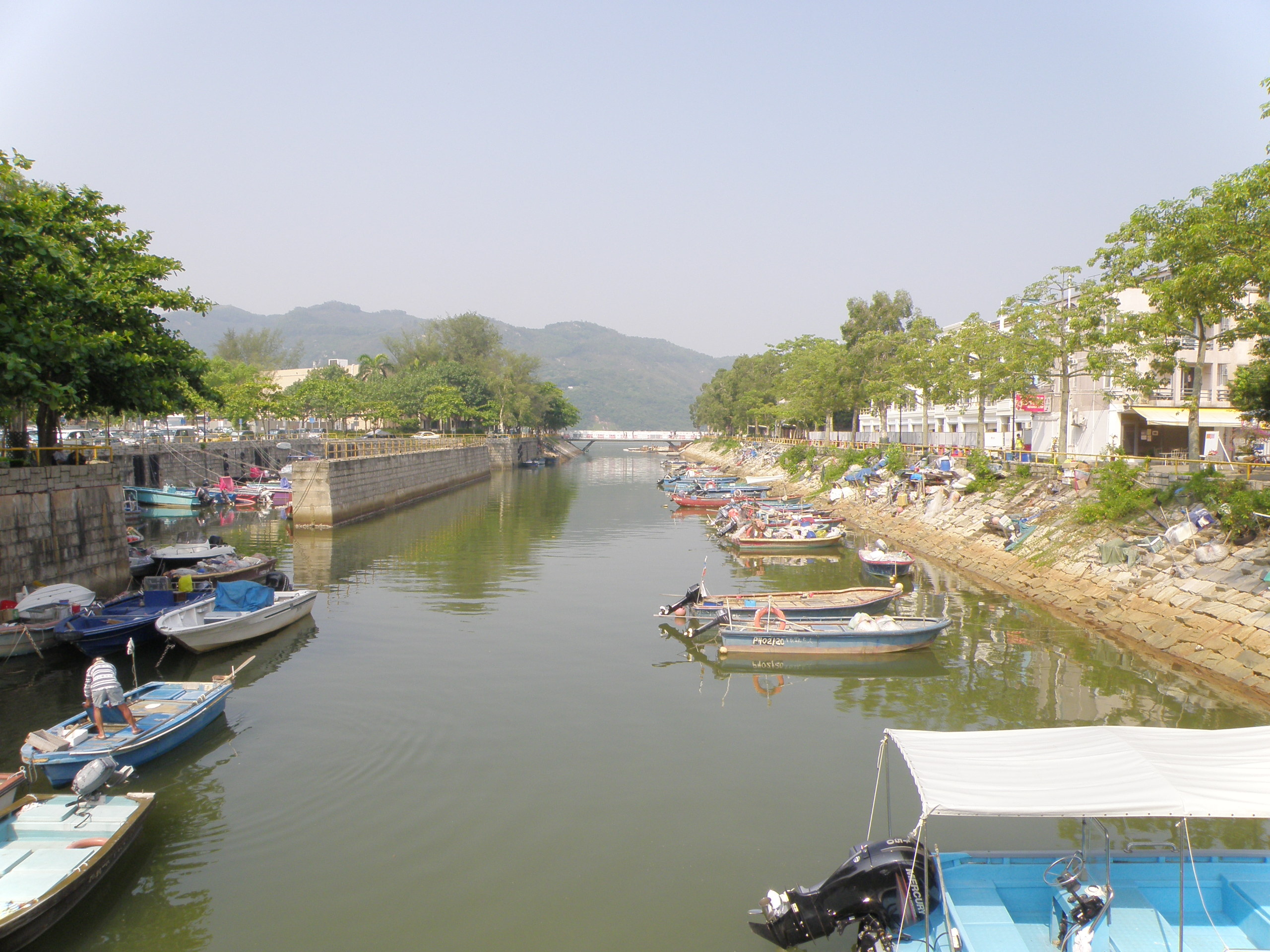 Silver River in Mui Wo, Hong Kong.